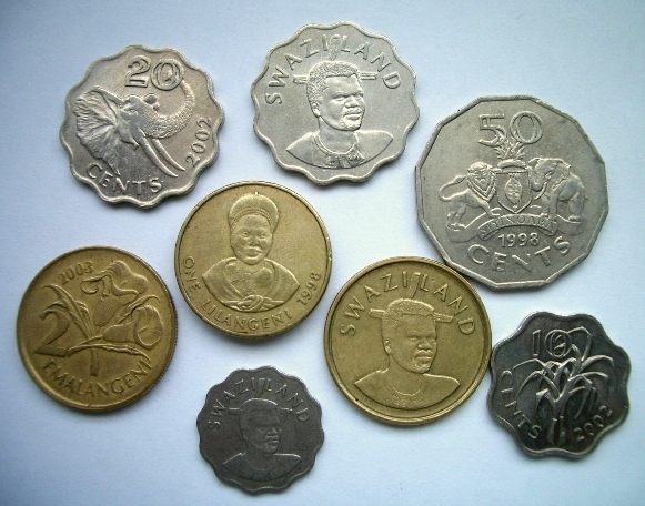 Take from German Wikipedia